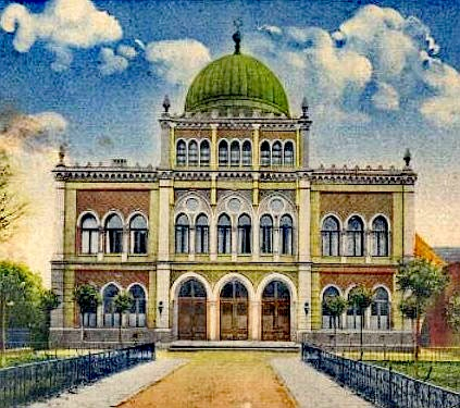 Synagogue of Lübeck